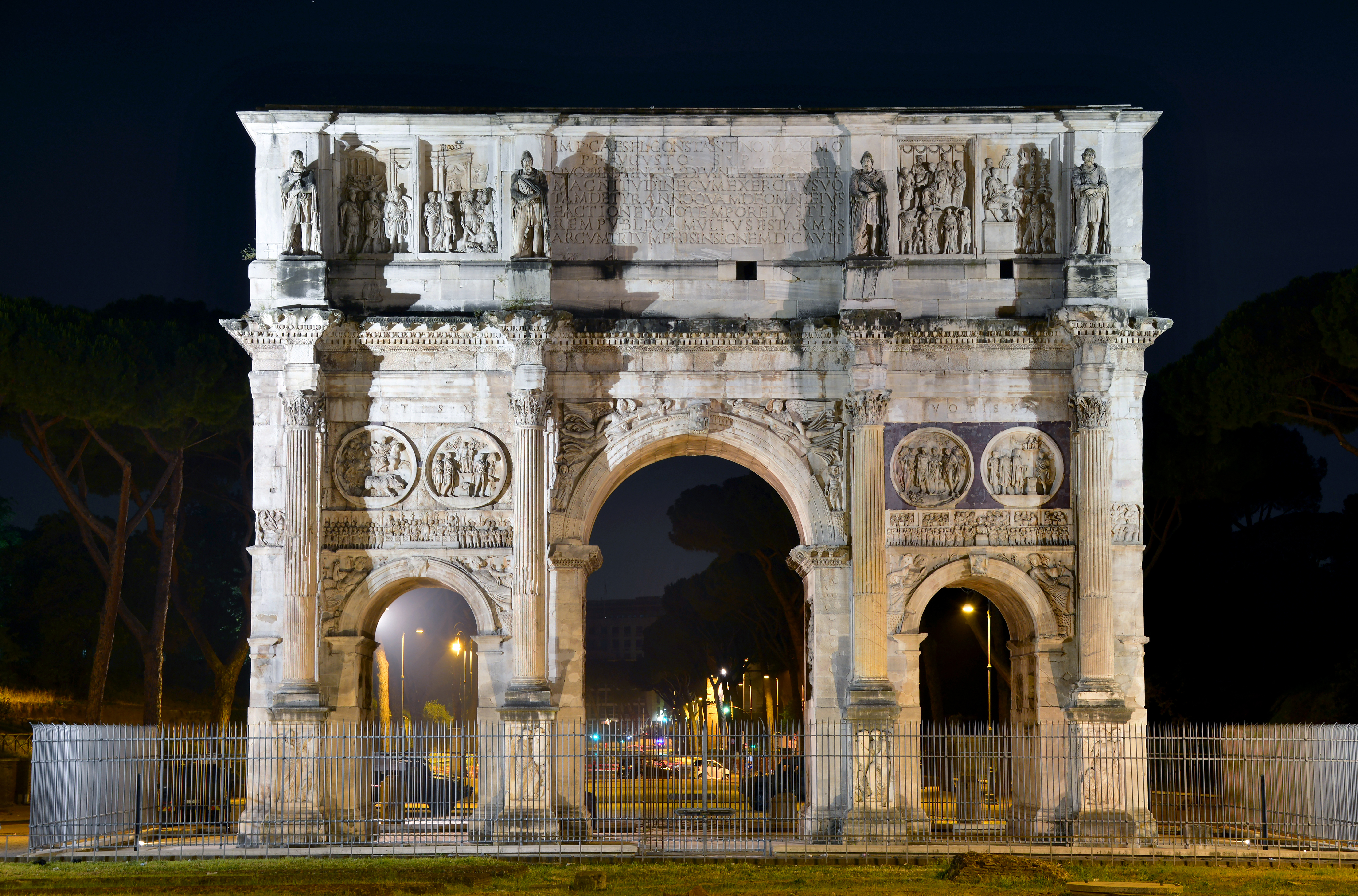 Arch of Constantine at Night (Rome)